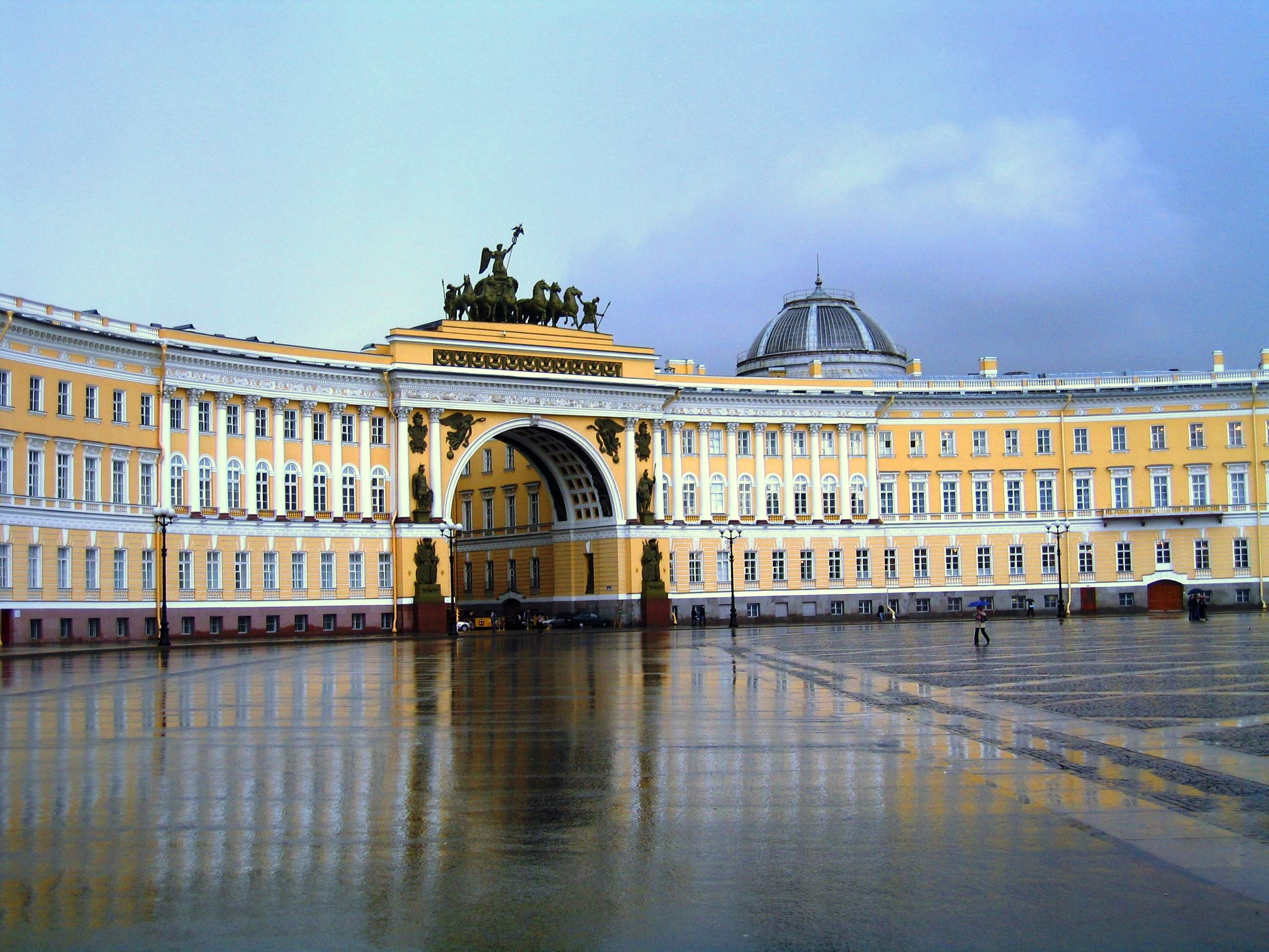 Вuilding of the General Staff of the Russian Empire in Palace Square, St Petersburg.